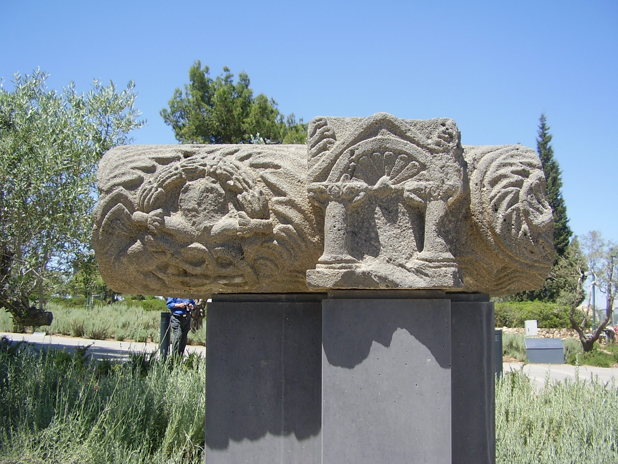 Decorated stone form Chorazin synagogue, bazalt, 4-6 century ce